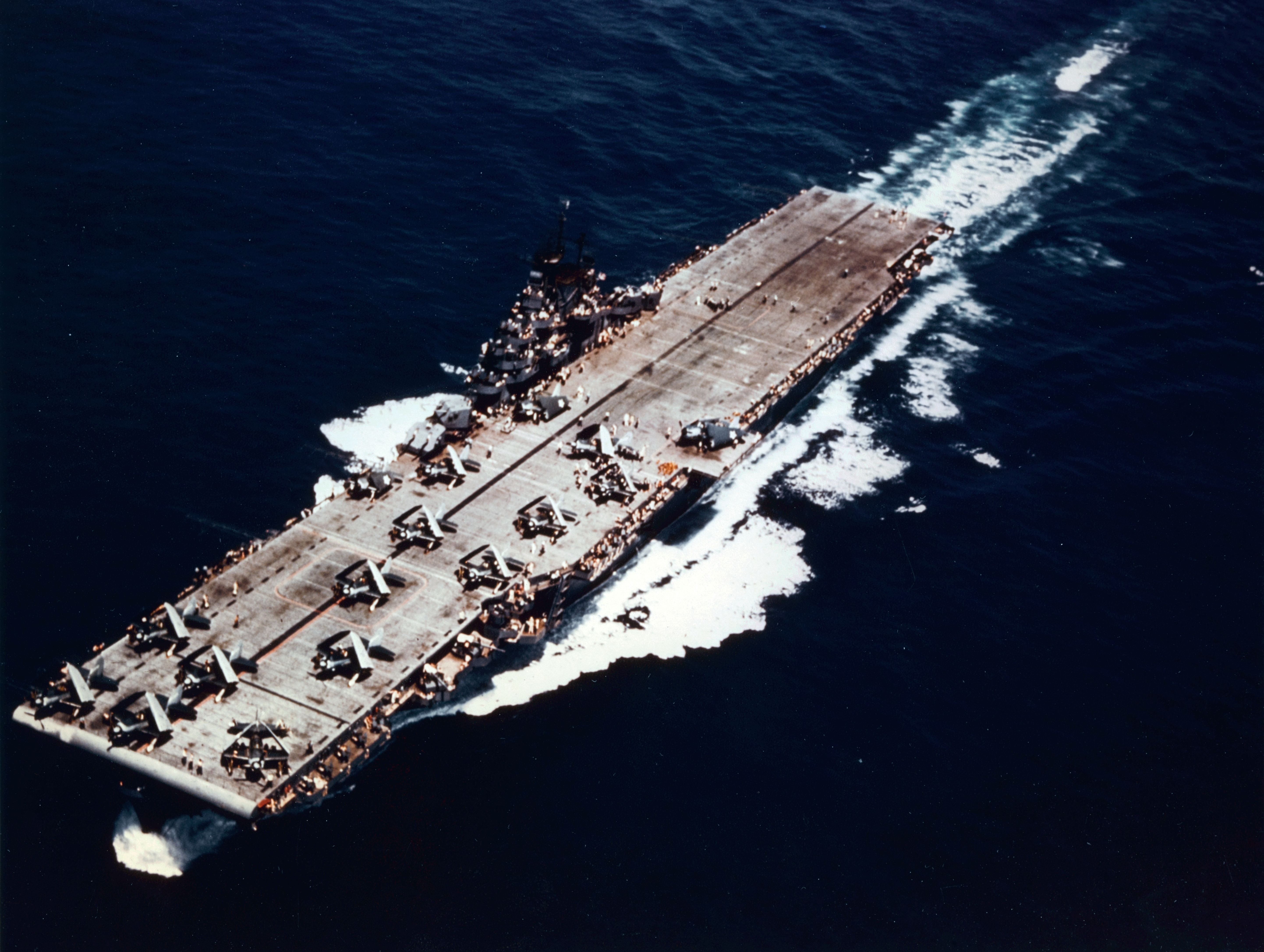 The U.S. Navy aircraft carrier USS Yorktown (CV-10) underway, circa in mid-1943, possibly during her shakedown cruise in the late spring. Planes on deck include Grumman F6F-3 Hellcat fighters and Curtiss SB2C-1 Helldiver dive bombers. Note this carrier's unique longitudinal black flight deck stripe and the absence of any hull numbers on the flight deck.